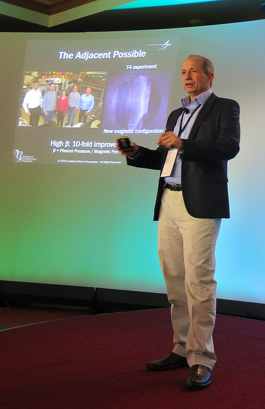 Charles Chase and his team at Lockheed have developed a high beta configuration, which allows a compact reactor design and speedier development timeline (5 years instead of 30).